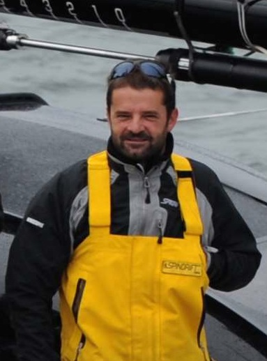 Pascal Bidégorry at the finish of the Krys Ocean Race, Brest, 2012.